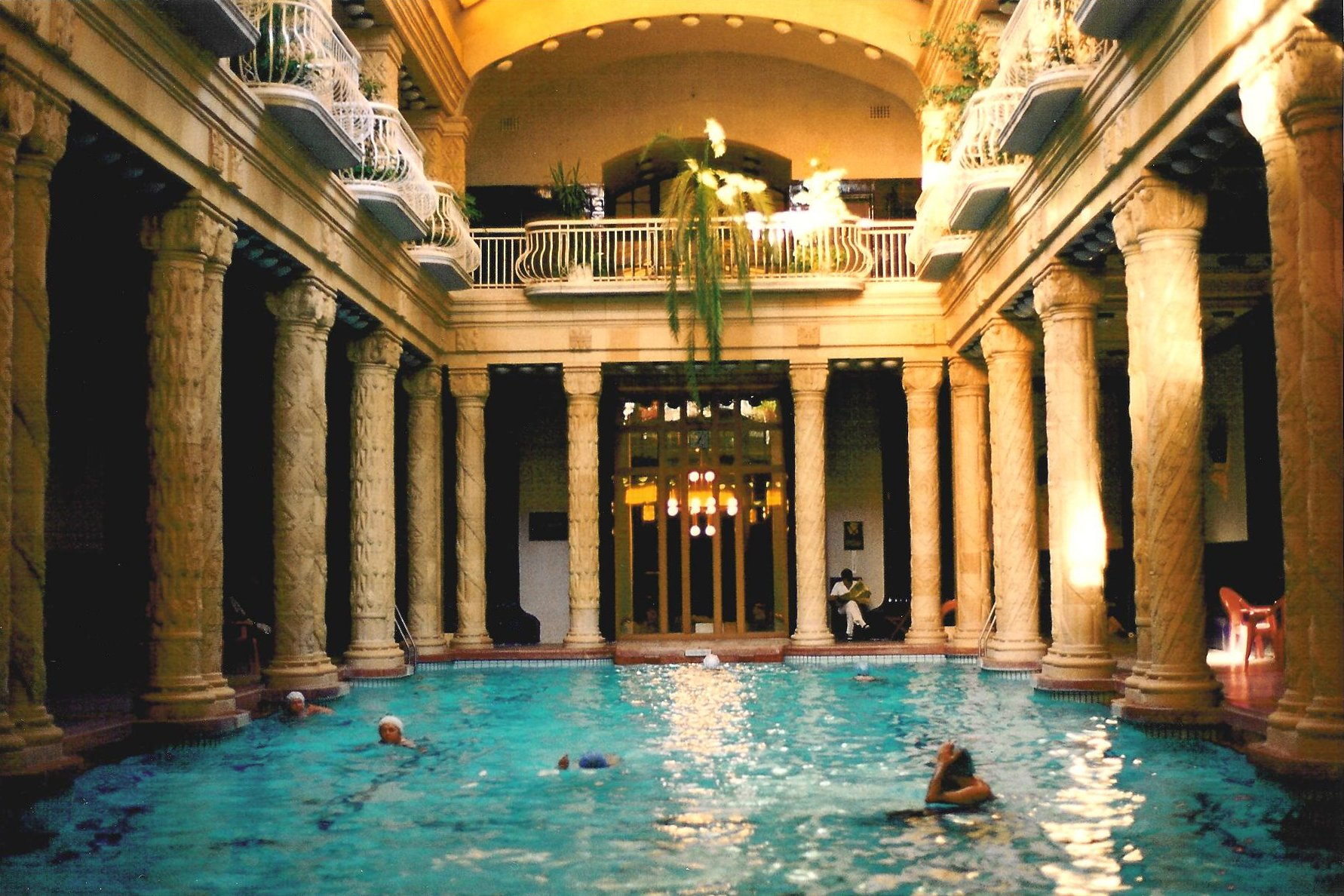 The Gellert Baths, Budapest, Hungary